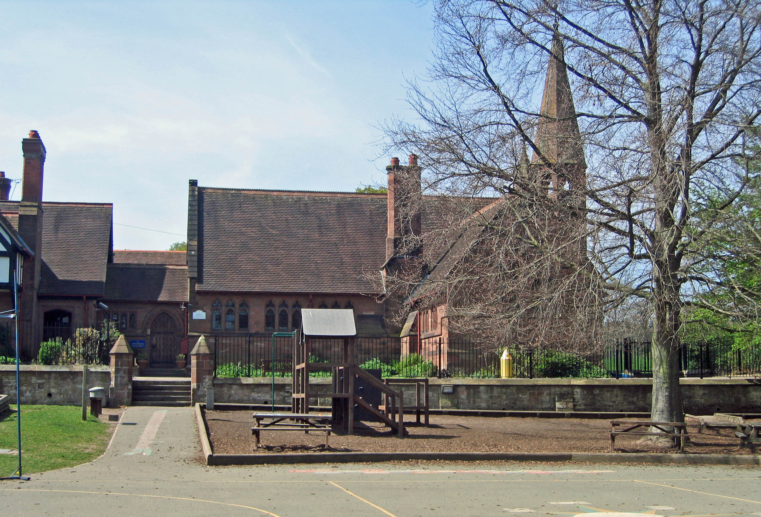 Photograph of Eccleston School